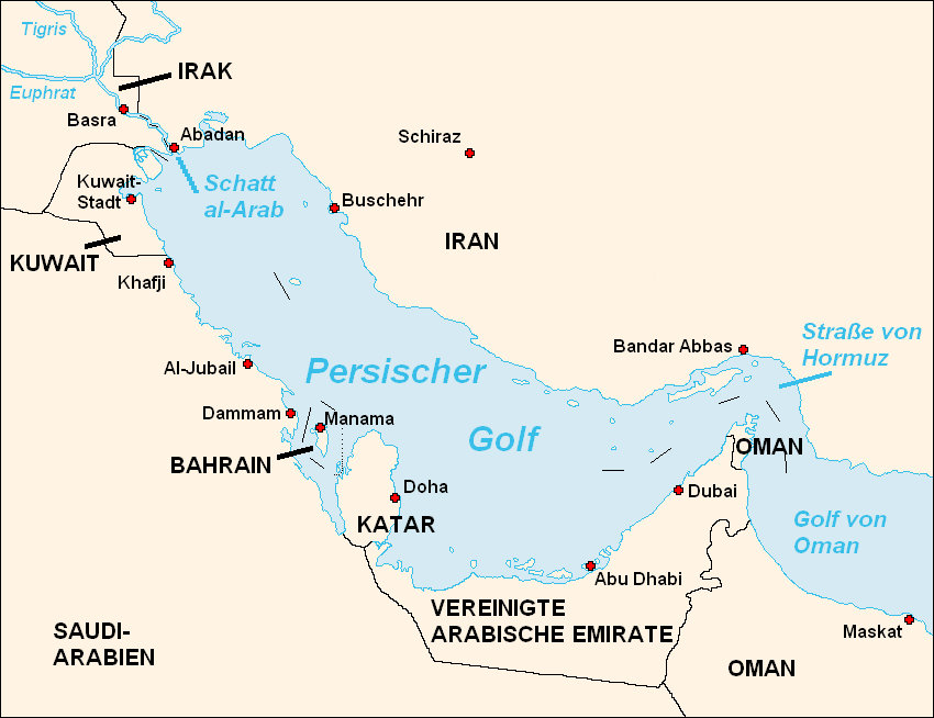 FrenchCarte dugolfe Persique(wp-FR),avec noms en allemand.EnglishMap ofPersian Gulf(wp-EN),with German names.